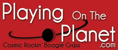 Logo for the band Playing On The Planet